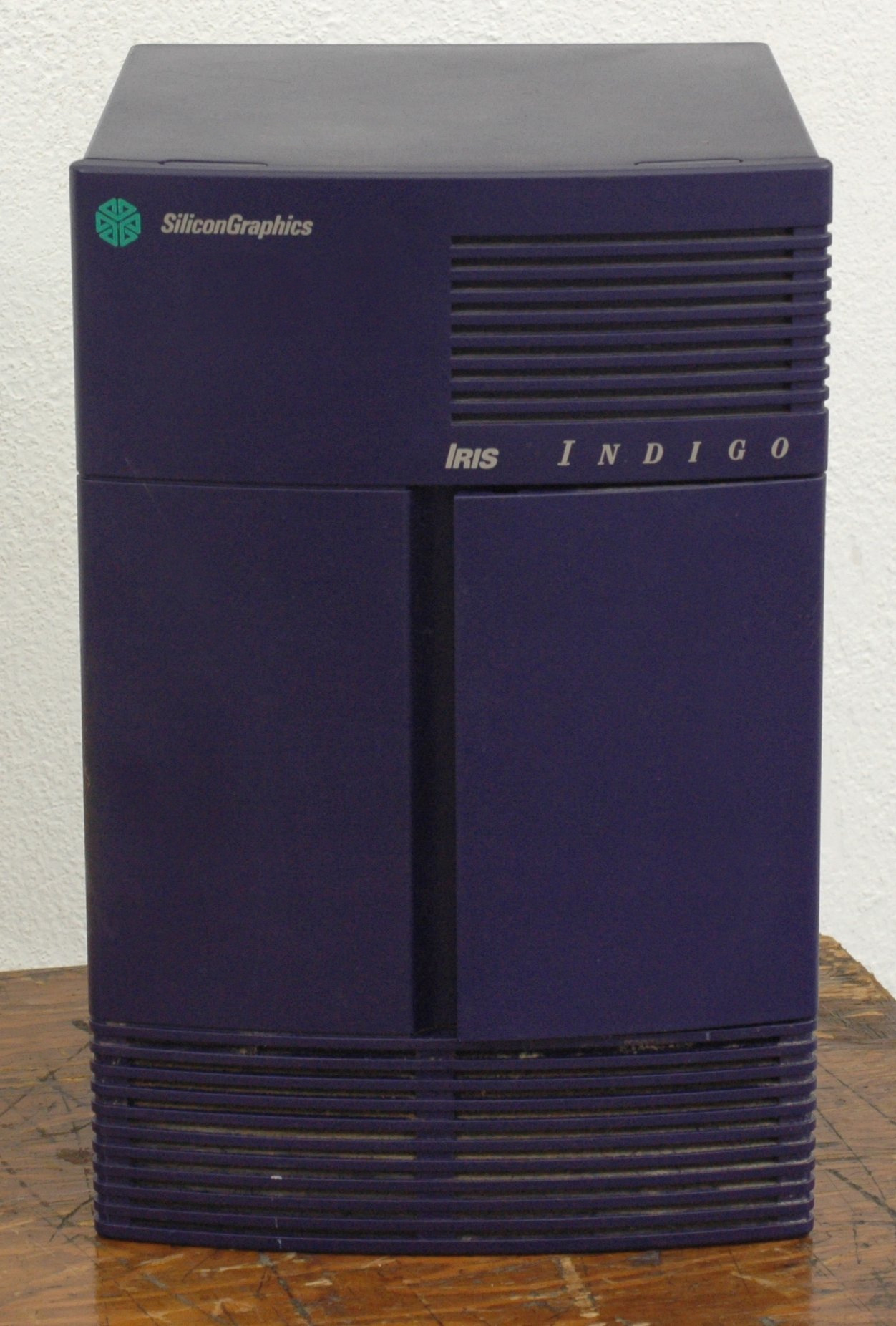 SGI Indigo workstation. From the collection of the RCS/RI.